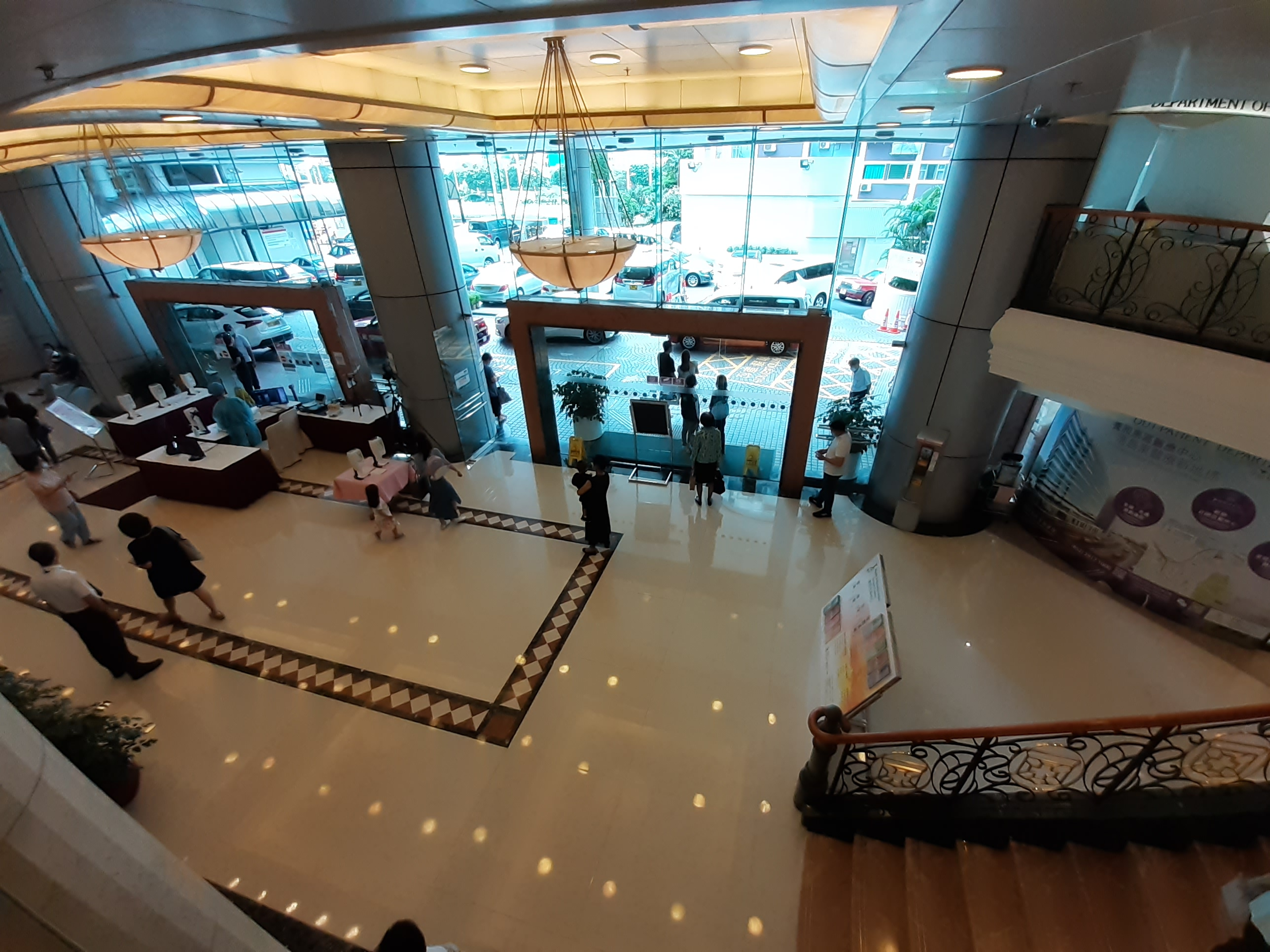 HK HV 跑馬地 Happy Valley 養和醫院 Hong Kong Sanatorium and Hospital in July 2020